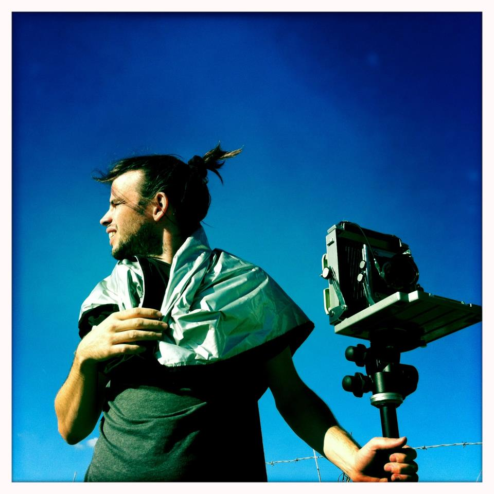 Mathieu Asselin